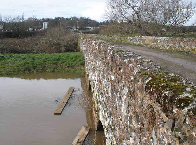 Clyst St Mary Bridge over the River Clyst in Devon, looking west toward Exeter